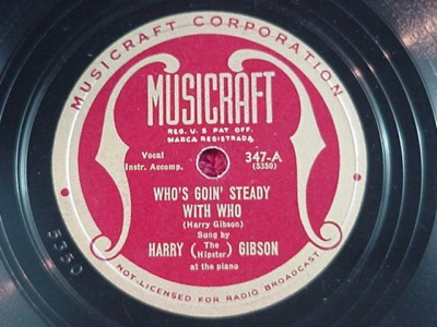 Harry Gibson - Who's goin steady 78 of musicraft